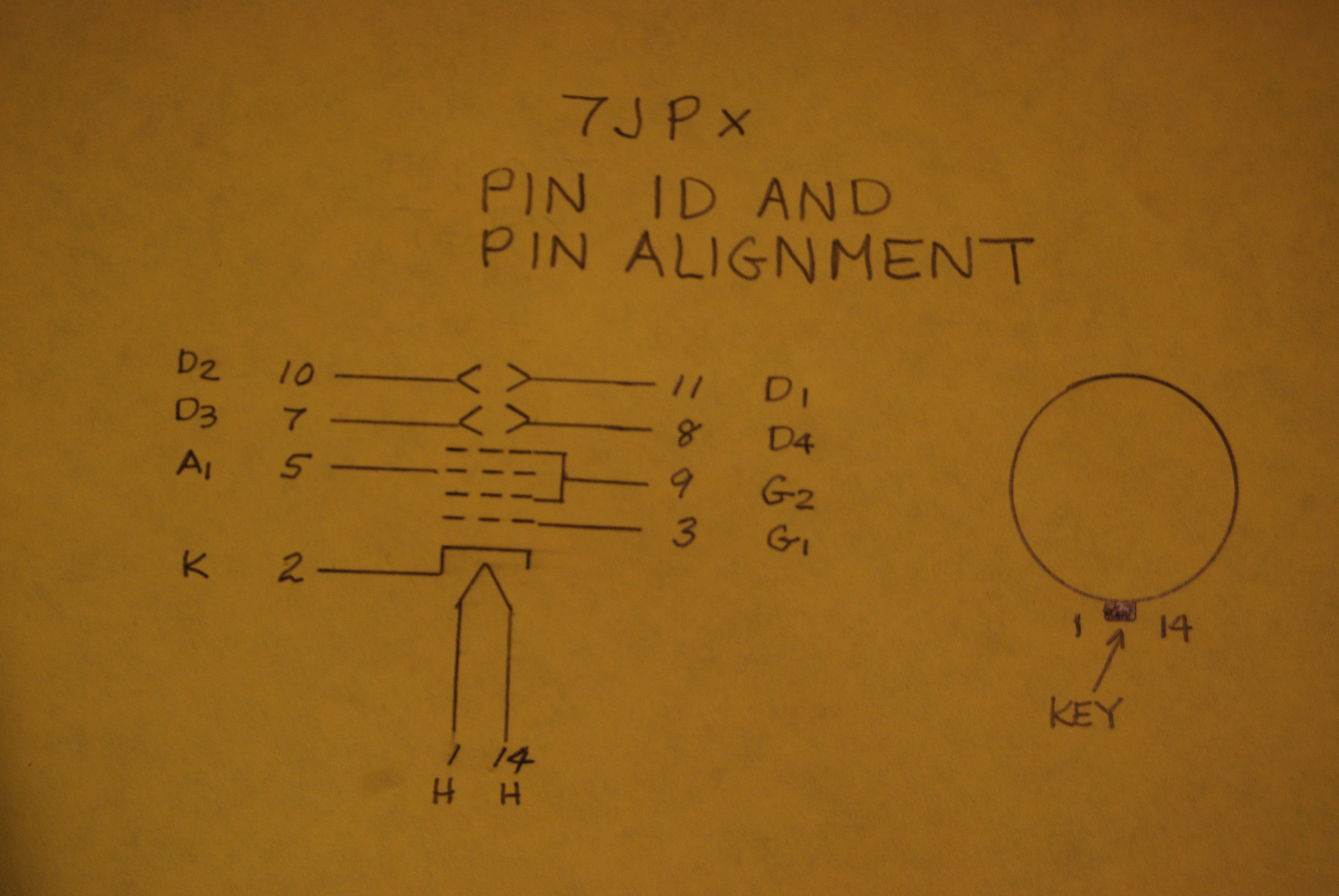 This was drawn by me to use as quick reference to stop searching through data sheets.